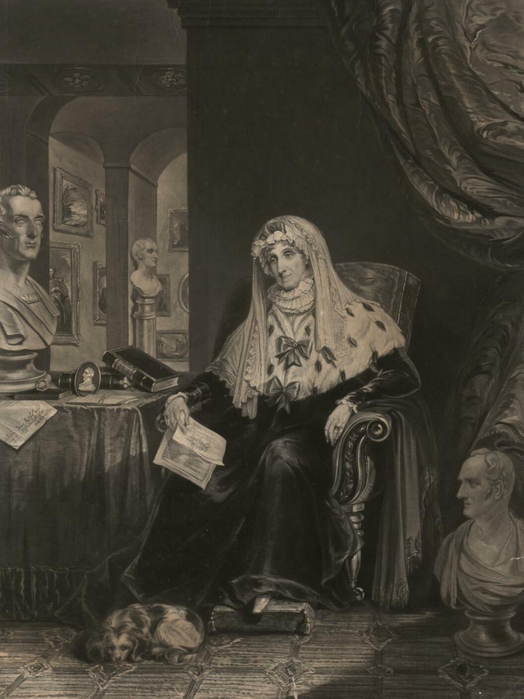 A portrait from the Welsh Portrait Collection at the National Library of Wales. Depicted person: Anne Wellesley, Countess of Mornington, the mother of Arthur Wellesley, 1st Duke of Wellington